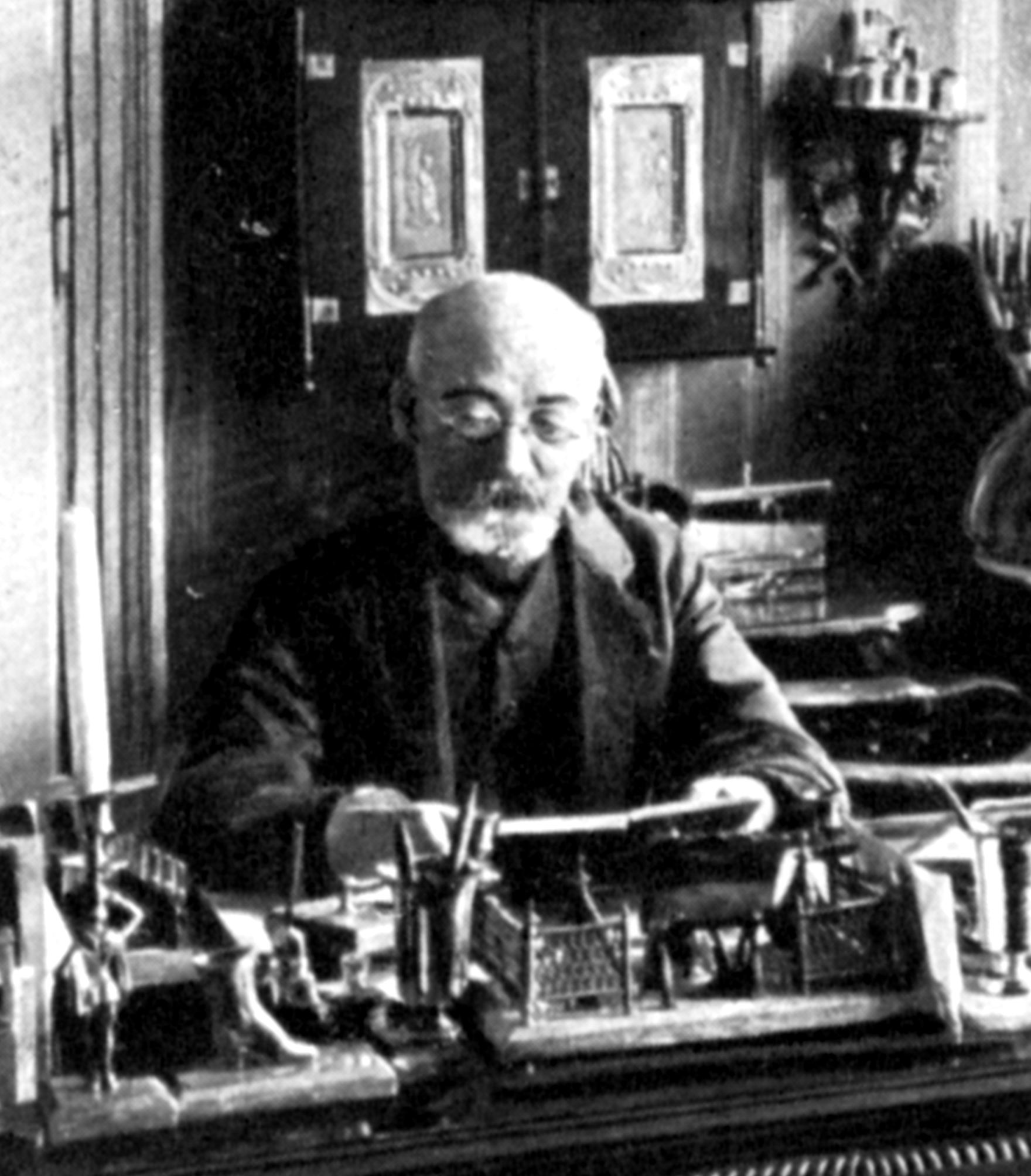 Ludwik Lejzer Zamenhof at his desk, Warsaw, Poland.